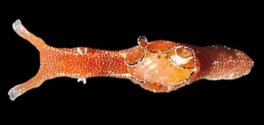 Photo of dorsal view of a live Aplysia parvula.